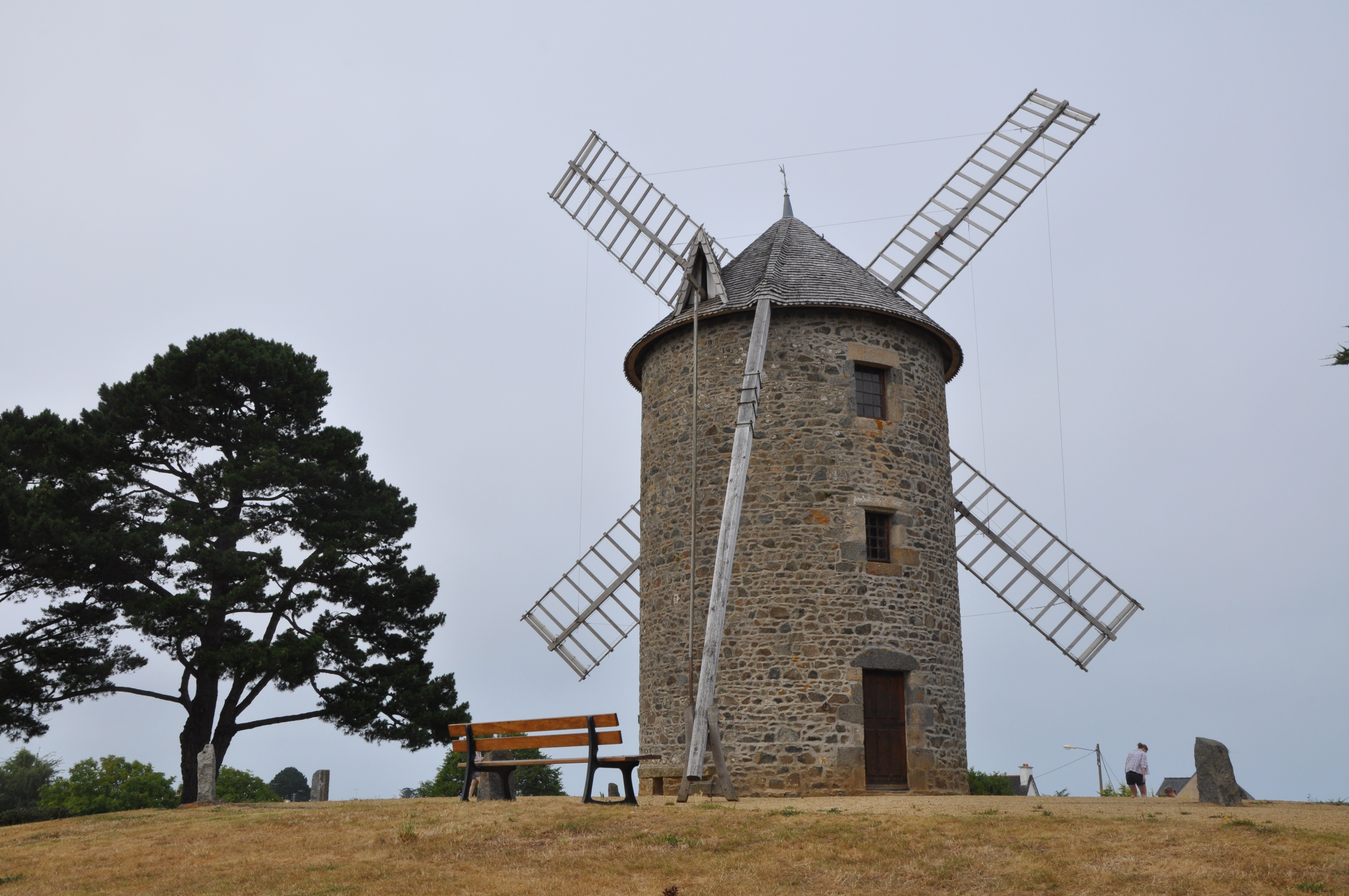 Saint-Quay-Portrieux (France, Britanny), windmill